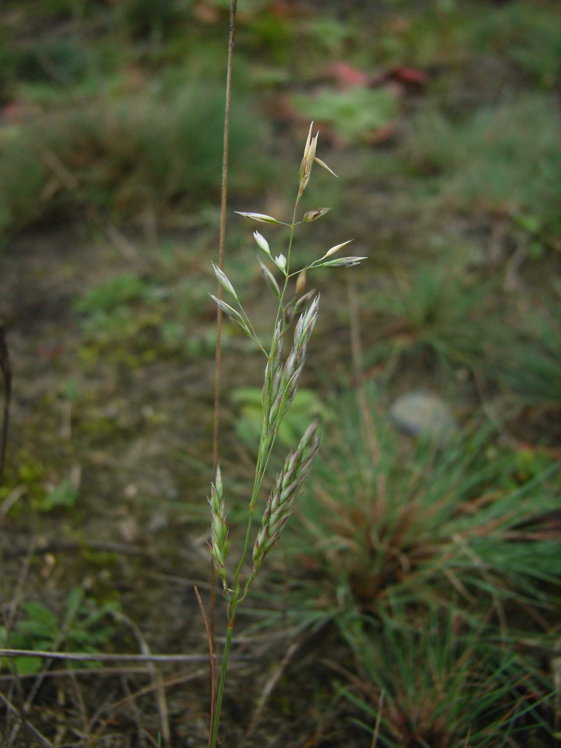 Silbergras (Corynephorus canescens); Blütenstand